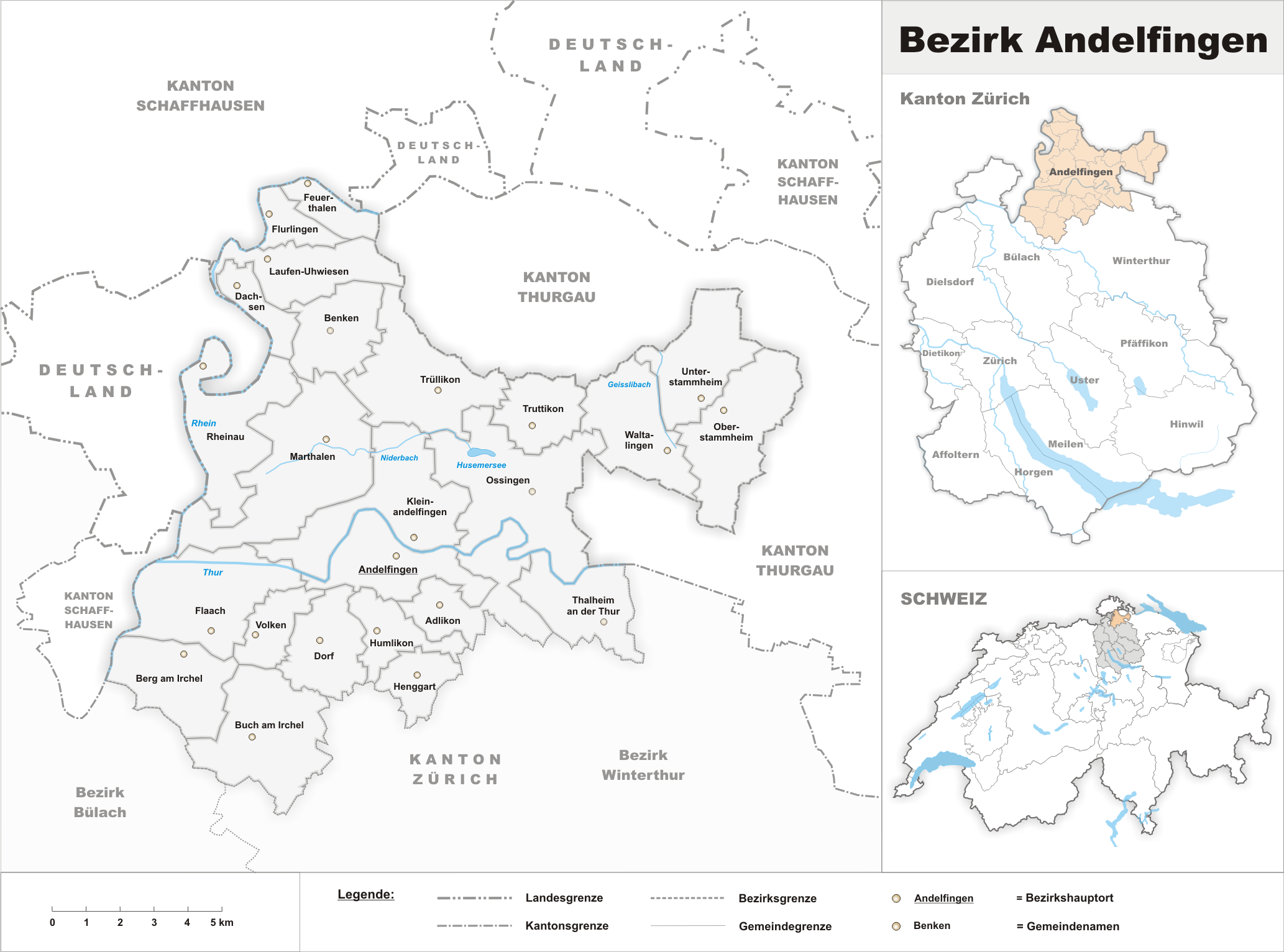 This locator map image could be recreated using vector graphics as an SVG file. This has several advantages; see Commons:Media for cleanup for more information. If an SVG form of this image is available, please upload it and afterwards replace this template with vector version available|new image name.svg . Municipalities in the district of Andelfingen